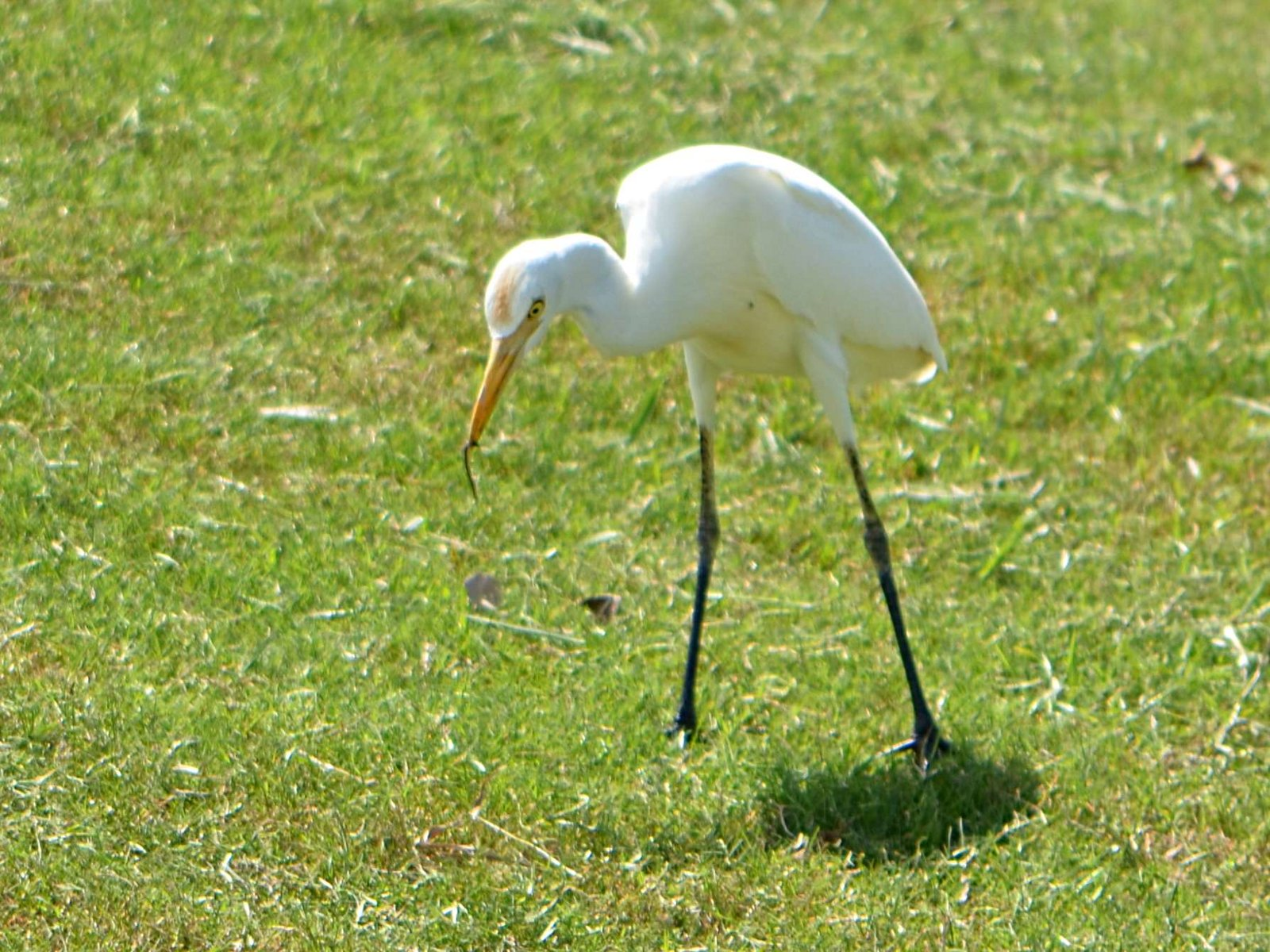 Cattle Egret (Bubulcus ibis coromandus) at Paradise Hotel, Likupang, North Sulawesi